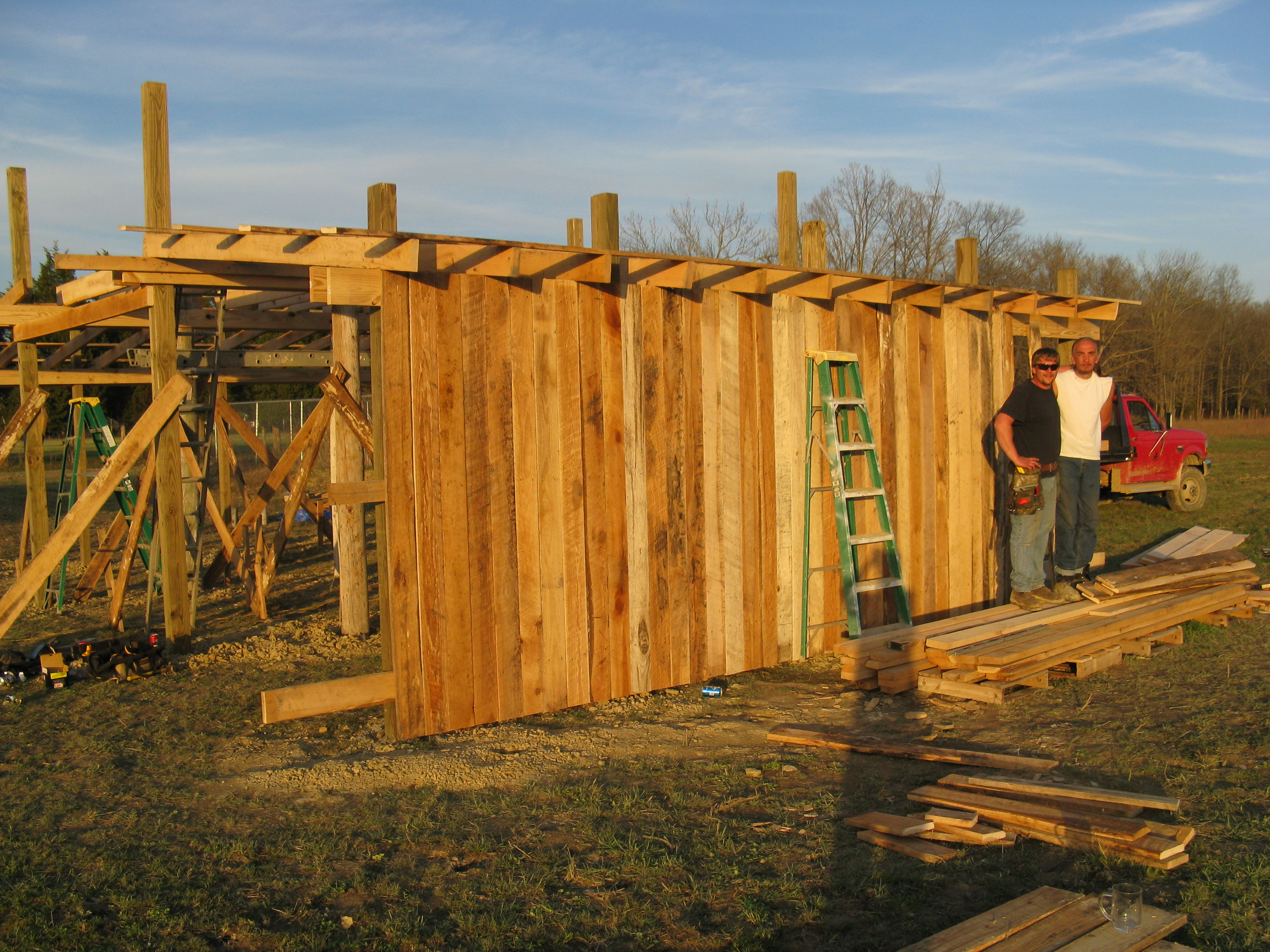 A pole barn under construction